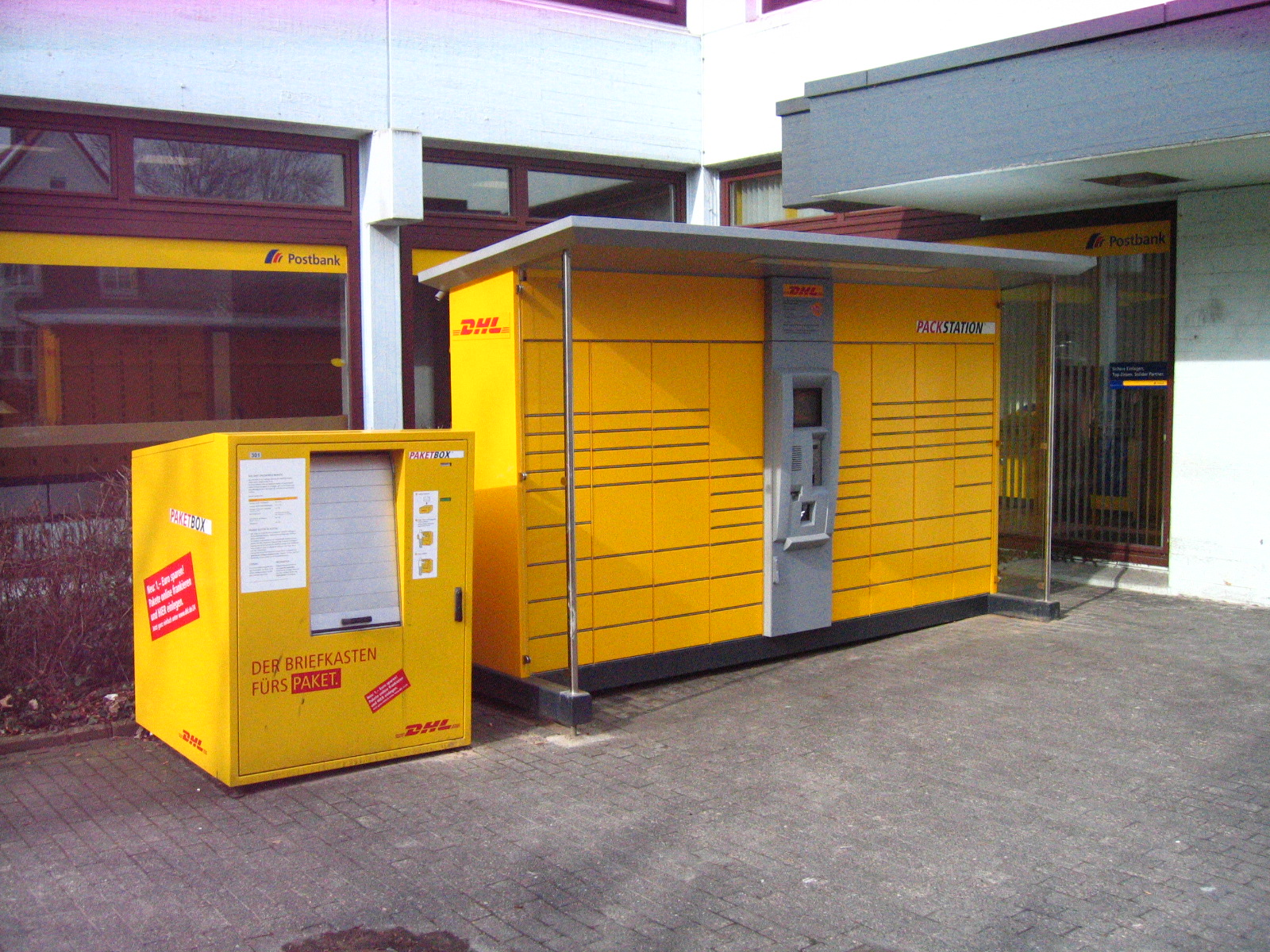 Paketbox (left) and Packstation (right) in Bünde, North Rhine-Westphalia, Germany.